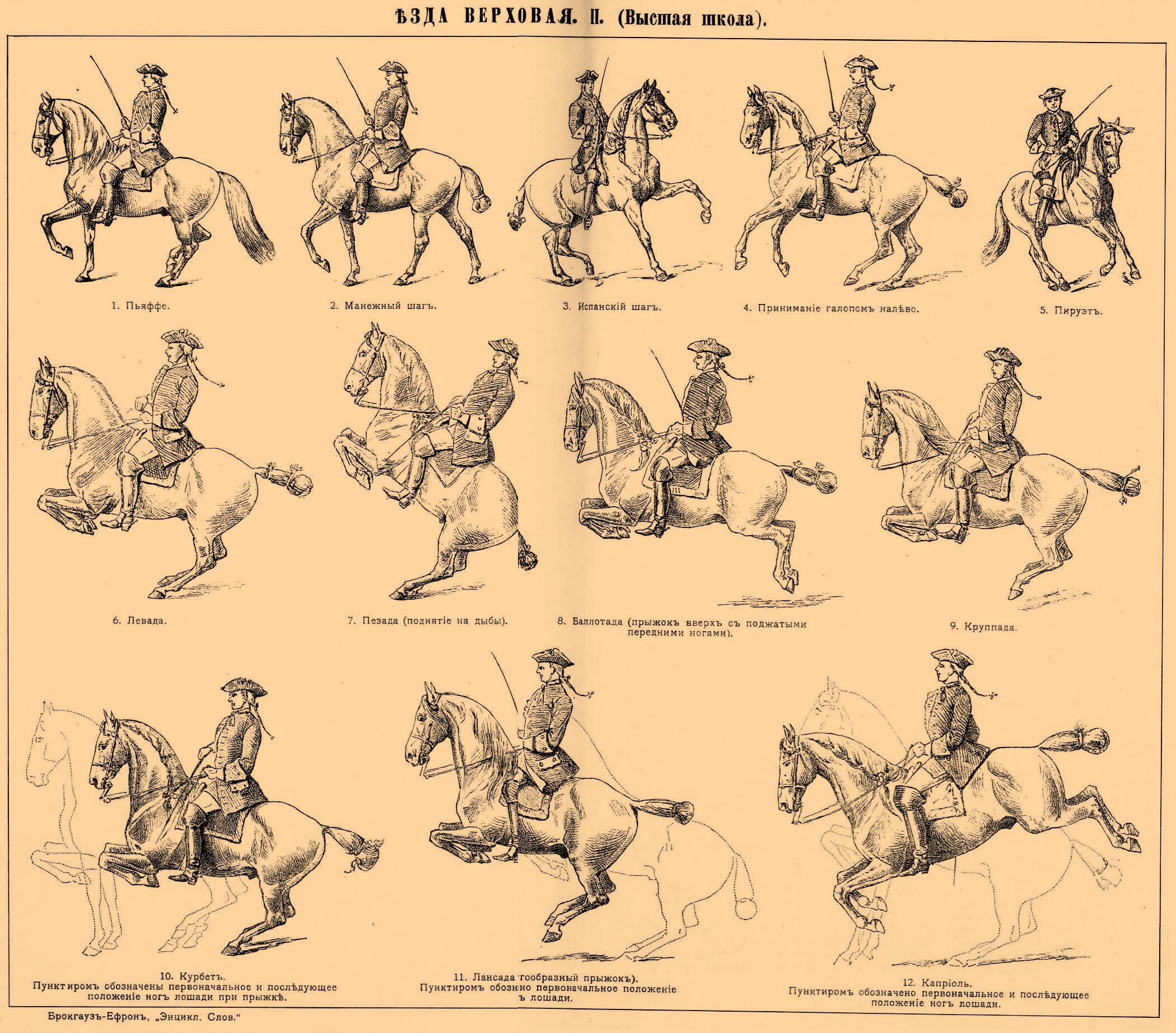 Illustration from Brockhaus and Efron Encyclopedic Dictionary (1890—1907)